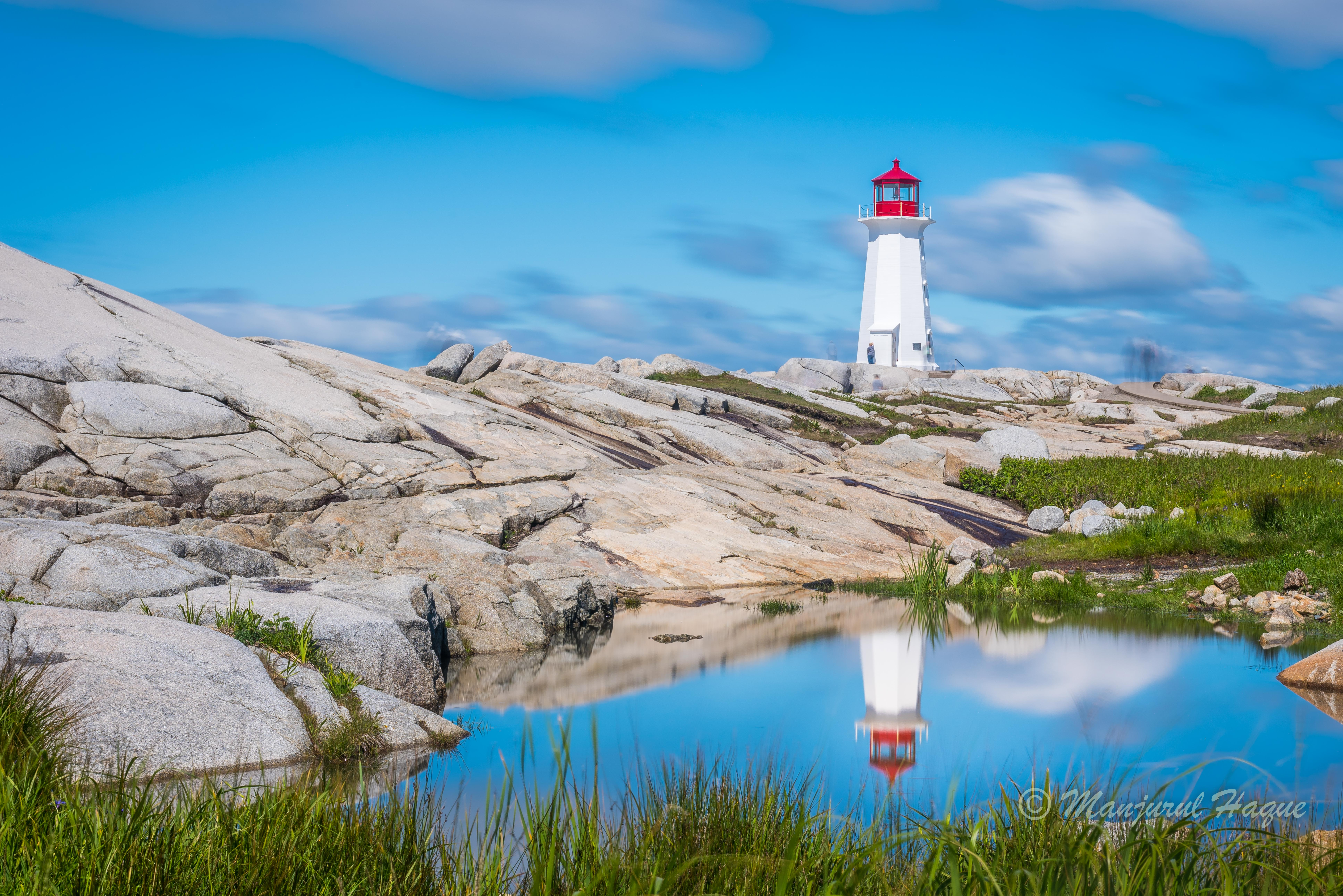 Peggy's cove light house is one of the Canadian iconic monument situated in the province of Nova Scotia.